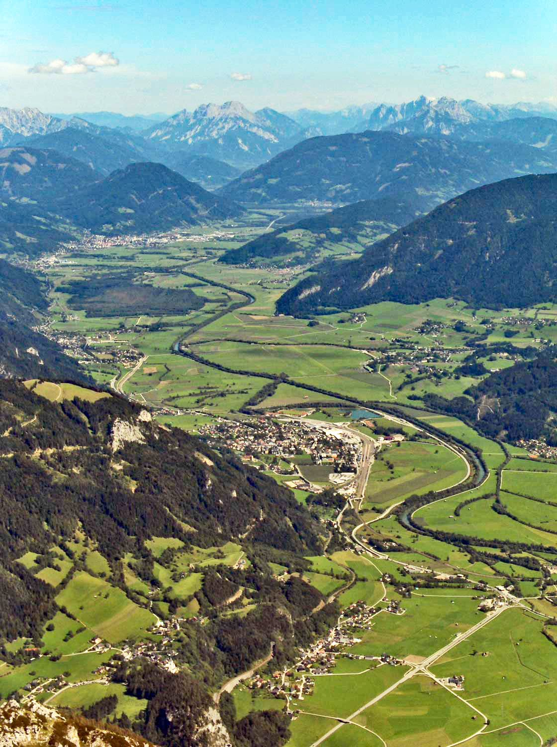 Valley of the Enns River (“Ennstal”), between the towns of Stainach (below centre) and Liezen (farther back, upper third), seen from the summit of Mt. Grimming, viewing direction is to the east. In the background the tops of the two rocky (limestone) ridges flanking the Gesäuse canyon, cut by the Enns River further downstream, are visible.